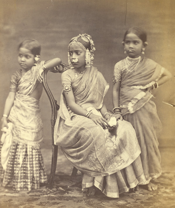 Studio portrait of three children wearing jewellery, at Madras in Tamil Nadu, taken in c. 1870 The young girl on the left is wearing the half-sari which is the traditional dress of adolescent girls in the South Indian states. The girl in the centre of the photograph is wearing the jewelled head-dress traditionally worn at marriage ceremonies or at 'rites of passage' ceremonies performed when a girl reaches puberty.